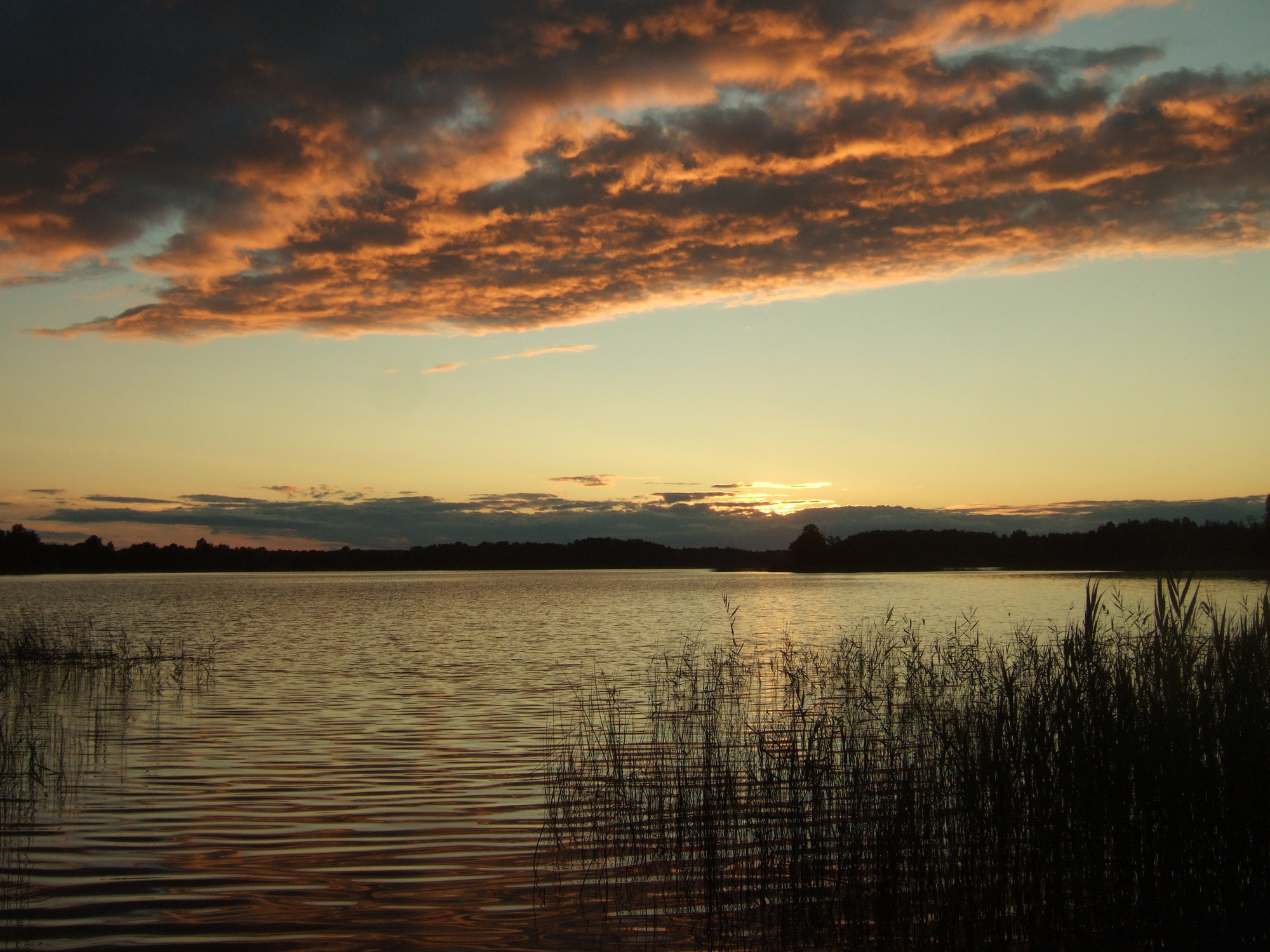 Lake Asveja from the Žingiai campsite, Molėtai district, Lithuania